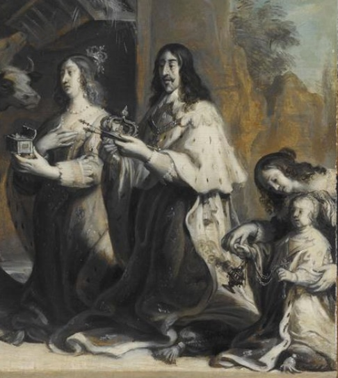 Louis XIII, Anne of Austria and the Dauphin, future Louis XIV, praying in front of a representation of the Holy Family